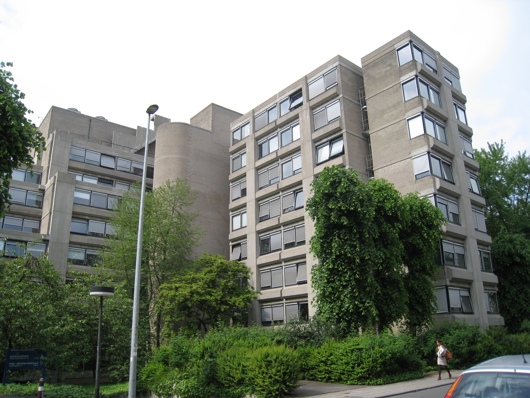 Erasmusgebouw (KUL), Blijde-Inkomststraat 21 Leuven, architect Marc Dessauvage